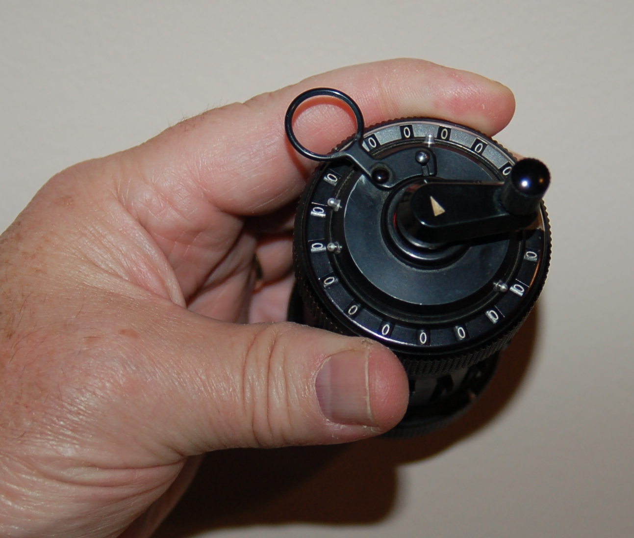 Left hand holding my Curta Type I Calculator (Sn. 49465), which I purchased for $10.00 in Santa Cruz, CA.